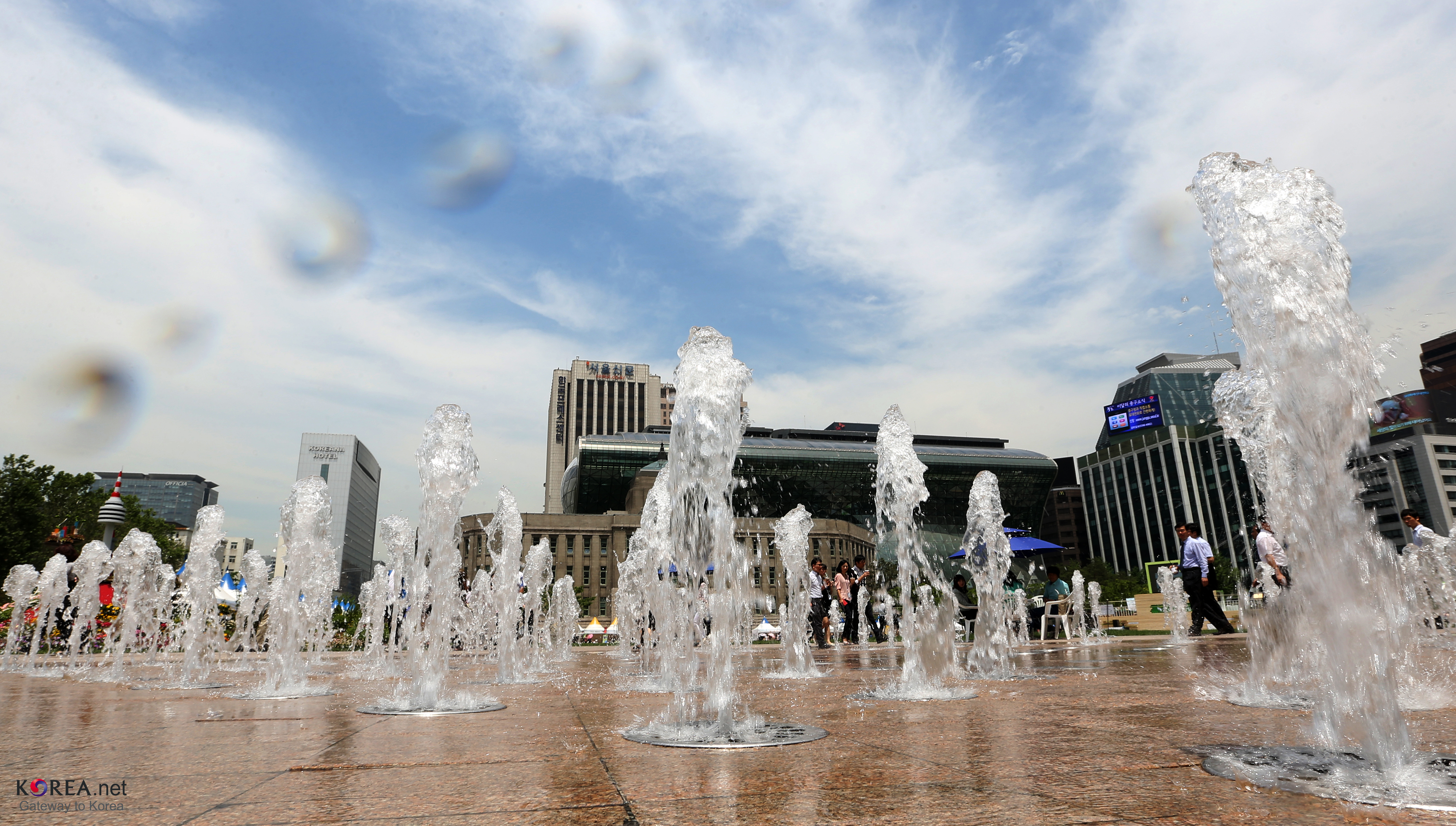 Seoul Sketch on May 31, 2013 Streams of water spout from fountains at Seoul Plaza in downtown Seoul, offering respite from the hot temperature on May 31 . Seoul Plaza, Seoul 2013.05.31. -Related Article- “Summer arrives in Korea” Ministry of Culture, Sports and Tourism Korean Culture and Information Service Newsroom Jeon Han 여름이 느껴지는 서울 수은주가 28도를 기록한 31일 시청 앞 광장의 분수가 시원한 물줄기를 뿜어내며 점심을 마친 직장인들에게 청량감을 전하고 있다. 시청광장, 서울 문화체육관광부 해외문화홍보원 코리아넷 전한